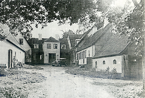 The countryhouse Fairyhill at Nyruo outside Helsingør, Denmark